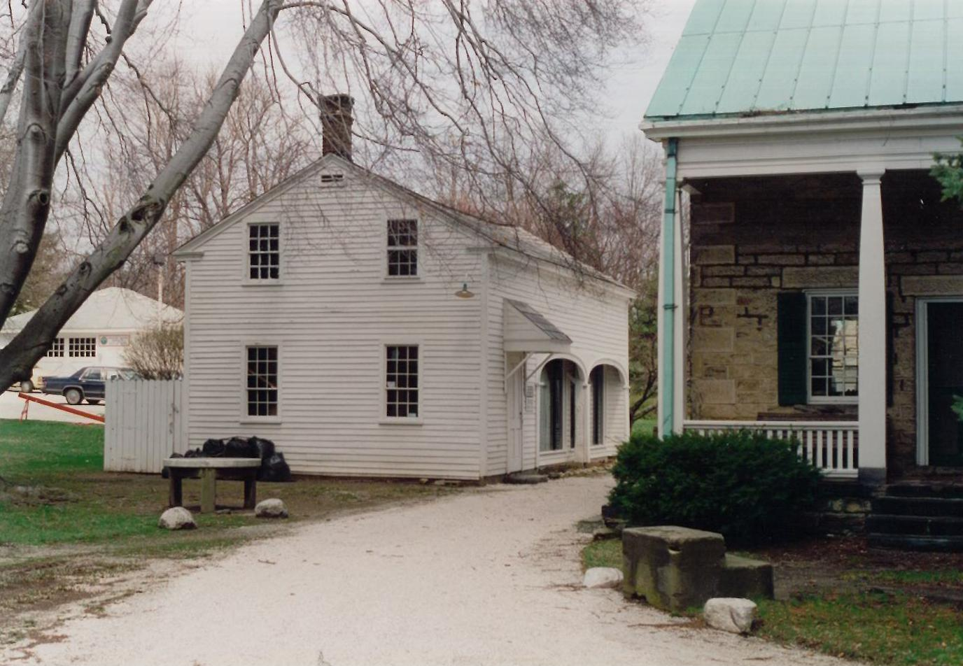 View of the Perkins Stone Mansion showing the wood shed, now the office of The Summit County Historical Society of Akron, OH